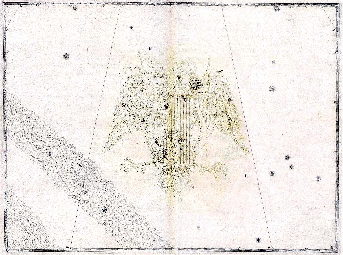 The constellation of Lyra. Uranometria